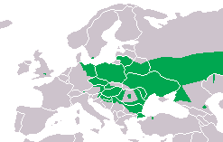 Distribution of Bombina bombina